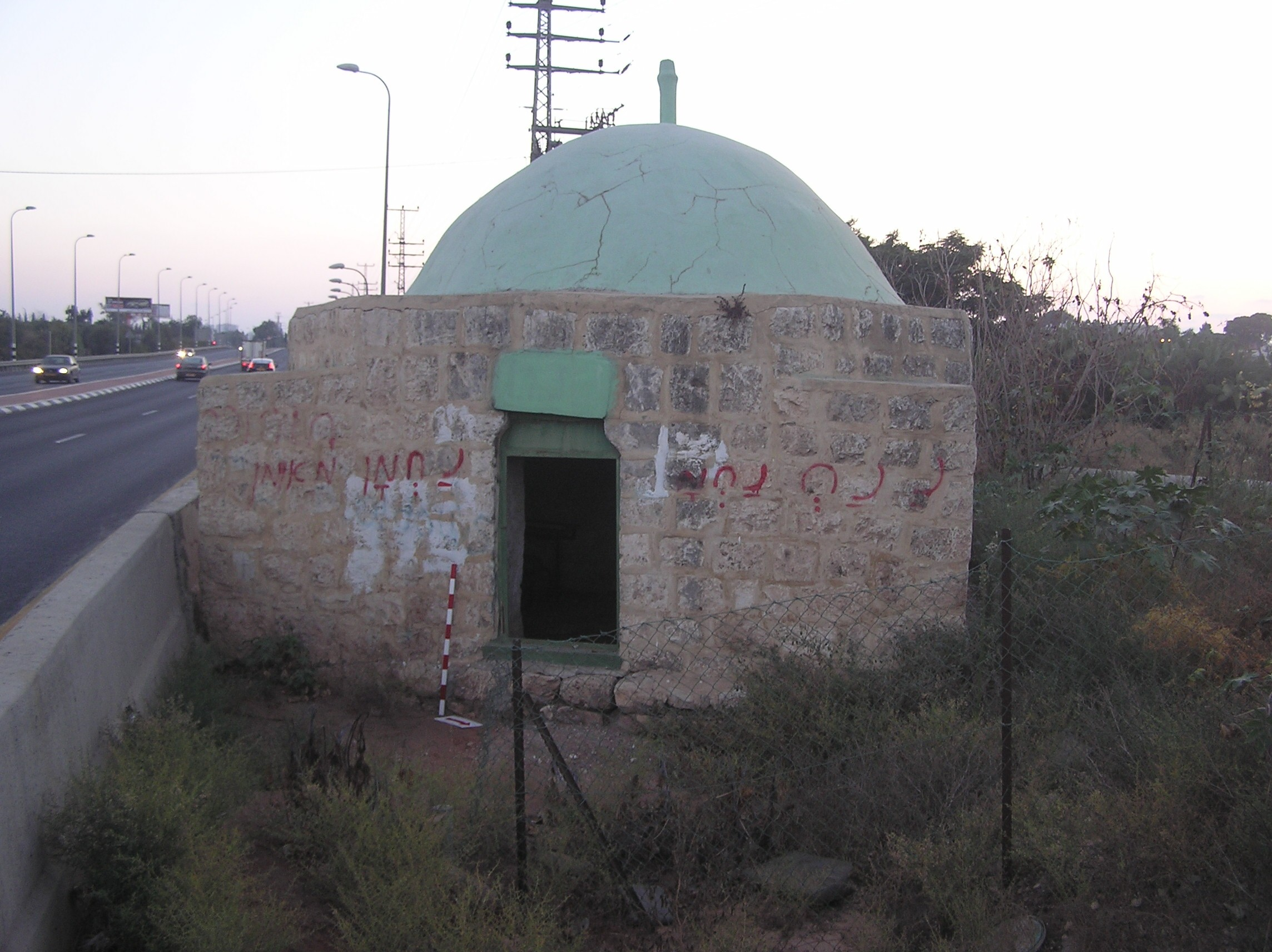 Maqam Nabi Sawarka near Kfar Saba